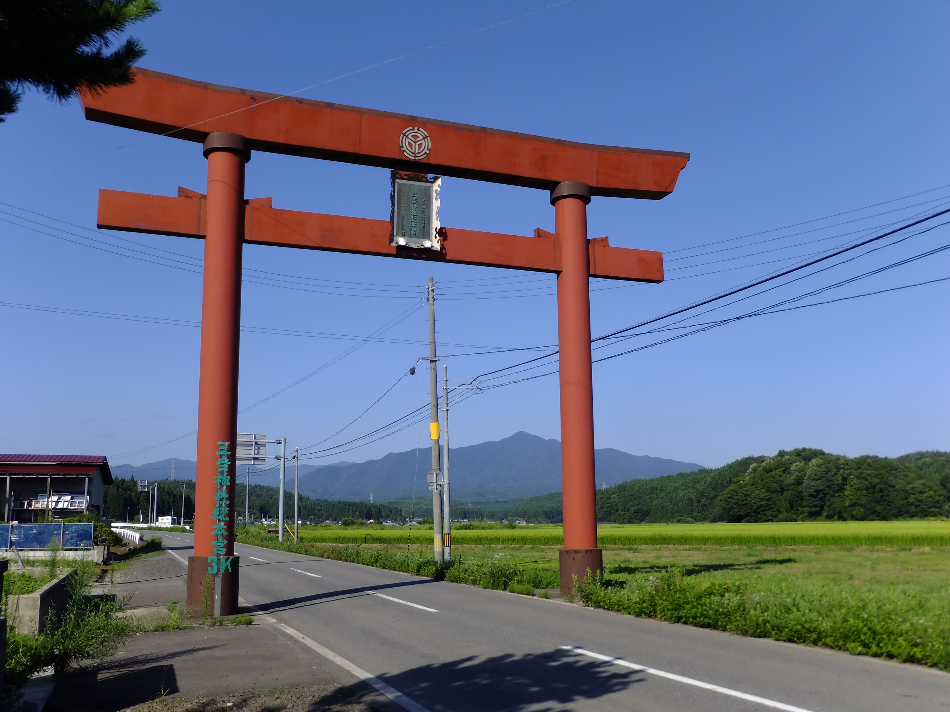 View of Torii of the Taiheizan-Miyoshi Shrine and Mount Taihei on the Akita Prefectural road route 232 at Taihei-Hatta, Akita City.